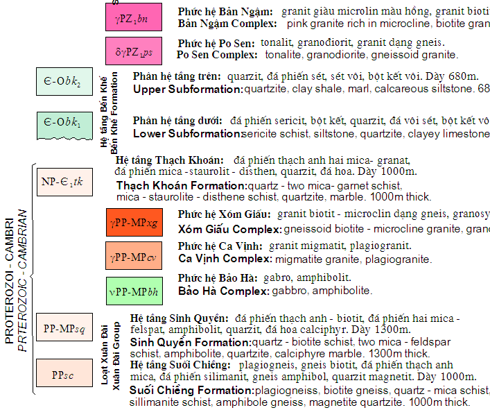 Legend section of the geological map of Hanoi, 2005, in dual languages (Vietnamese and English), showing that the most names are Latin origin.